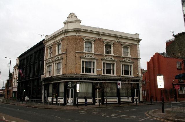 'Les Trois Garçons', Bethnal Green Road This substantial Victorian pub stands of the corner of Bethnal Green Road and Club Row: originally the former road took a more northerly course and this part was then part of Sclater Street. Why it should have a French name is not known to me.